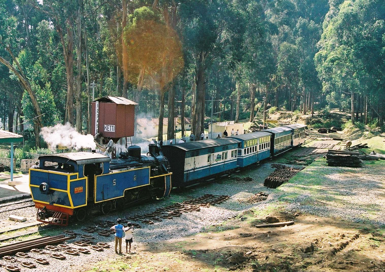 Nilgiri Mountain Railway train waits to depart from Ketti Station. The locomotive is No.37384. 26th February 2005 Photographer - A.M.Hurrell Camera - Minolta X700 (35mm film) Modified - Scanned by film developer. File size and definition changed using Adobe Photoshop 5.0LE